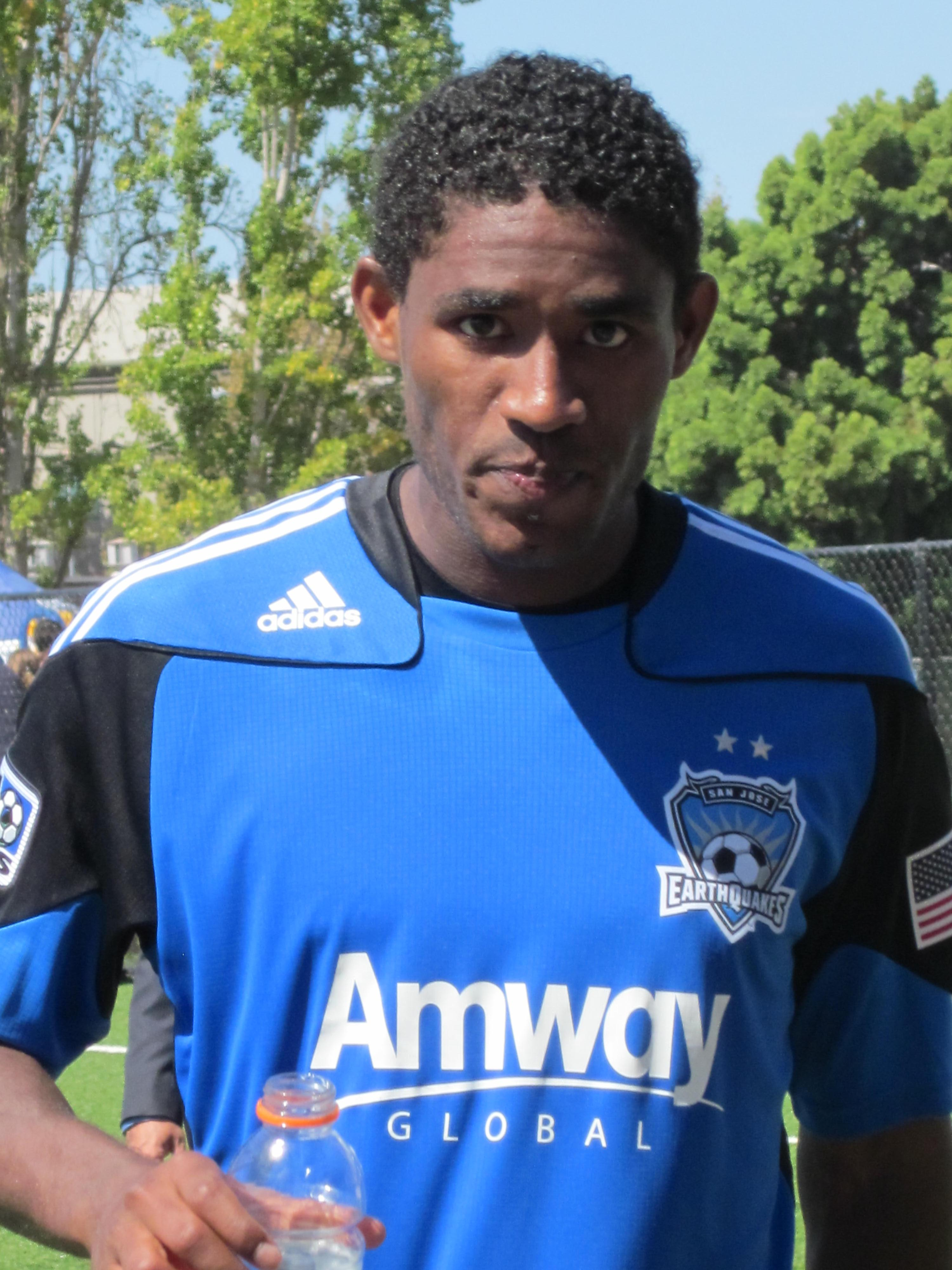 San Jose Earthquakes midfielder Khari Stephenson after a home game against the LA Galaxy. The Earthquakes won 1-0.